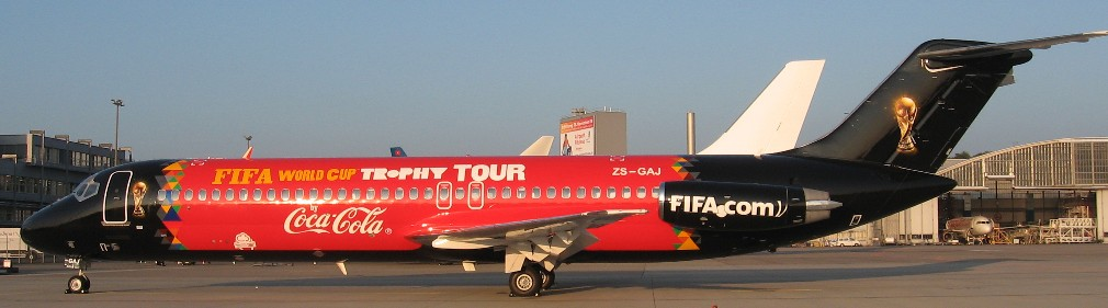 The airplane of the FIFA World Cup Trophy Tour 2009 one day before departure to africa in Zurich, aircraft registration ZS-GAJ